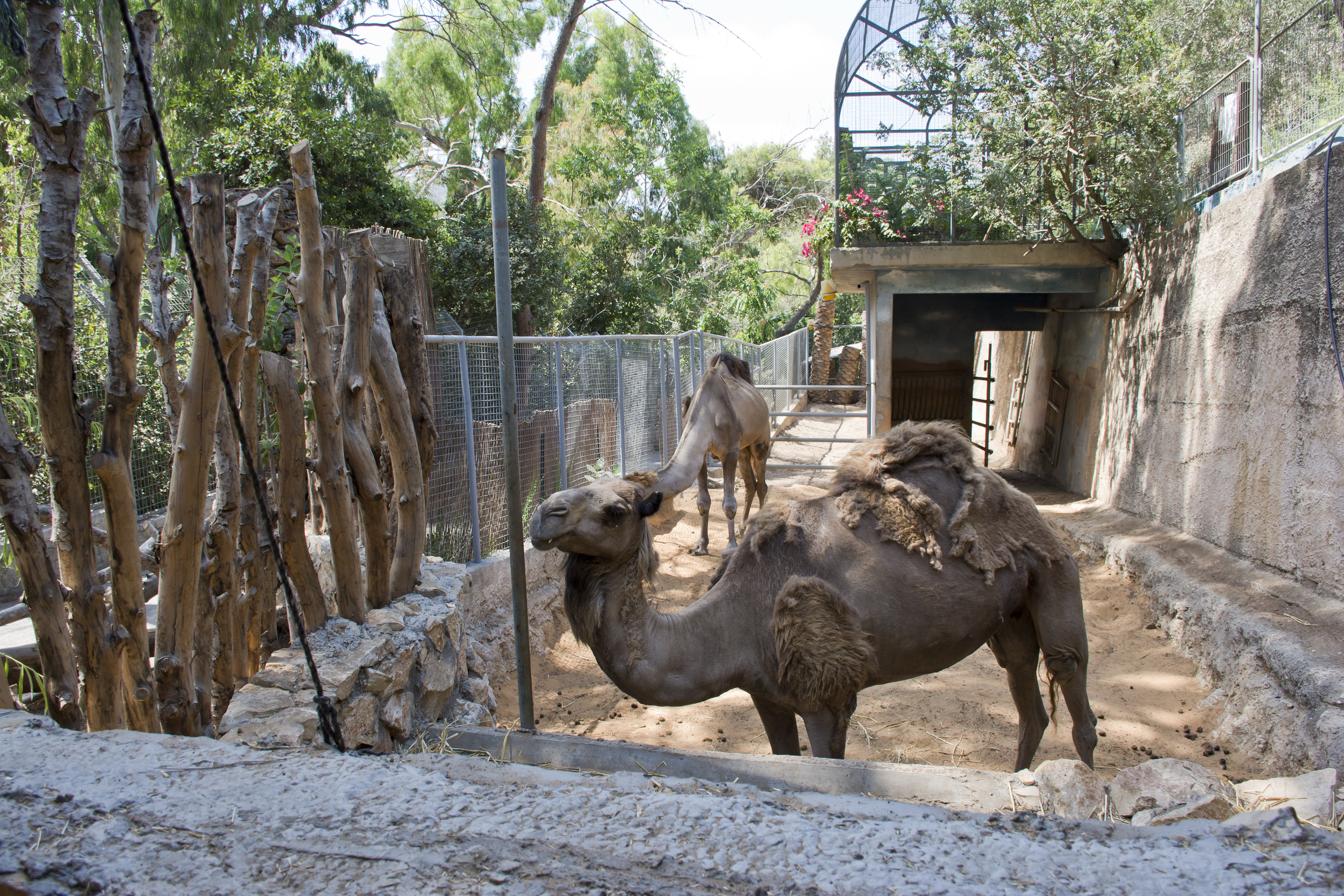 Haifa Educational Zoo, Haifa, Israel